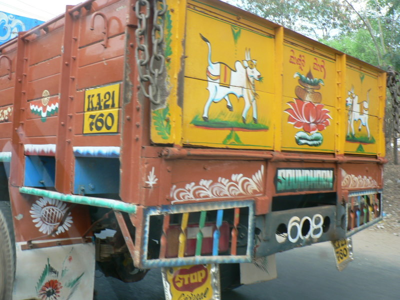 The colourful back of a lorry in India, decorated with cows and a lotus with a purnakumbha. Also a license plate and notices to break and using the horn.